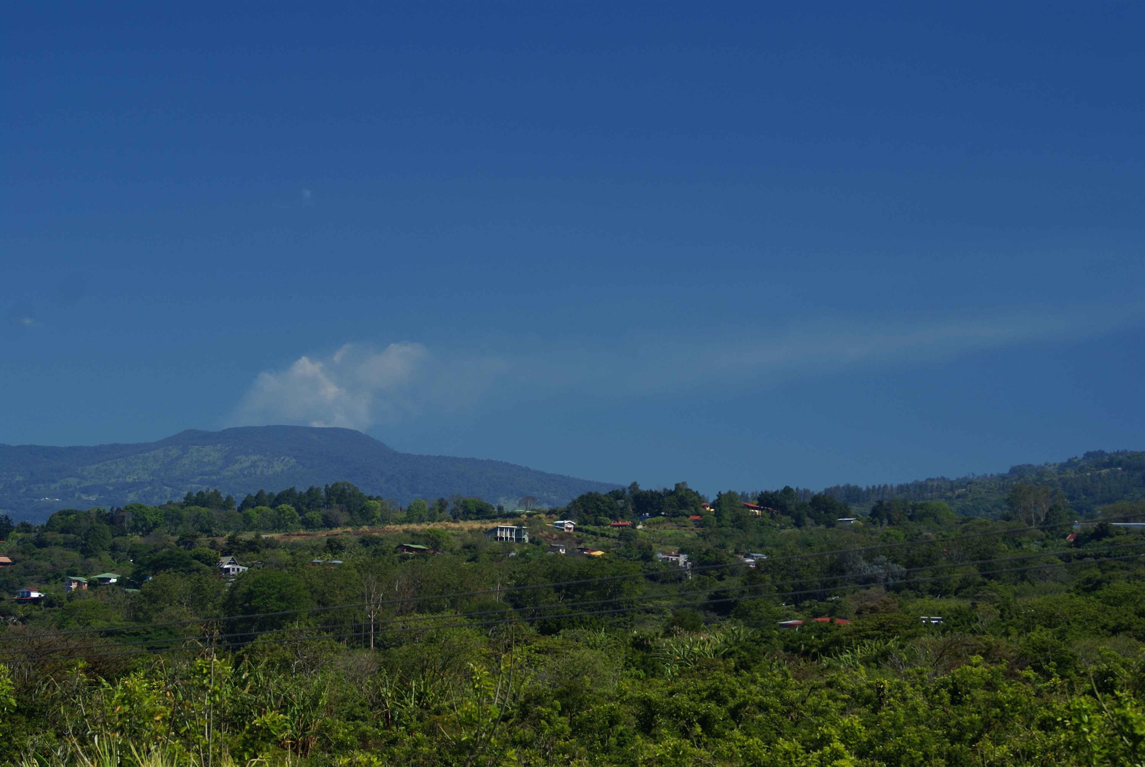 Poás Volcano (Costa Rica)